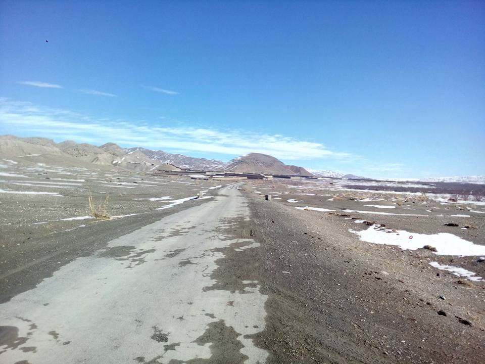 View from west